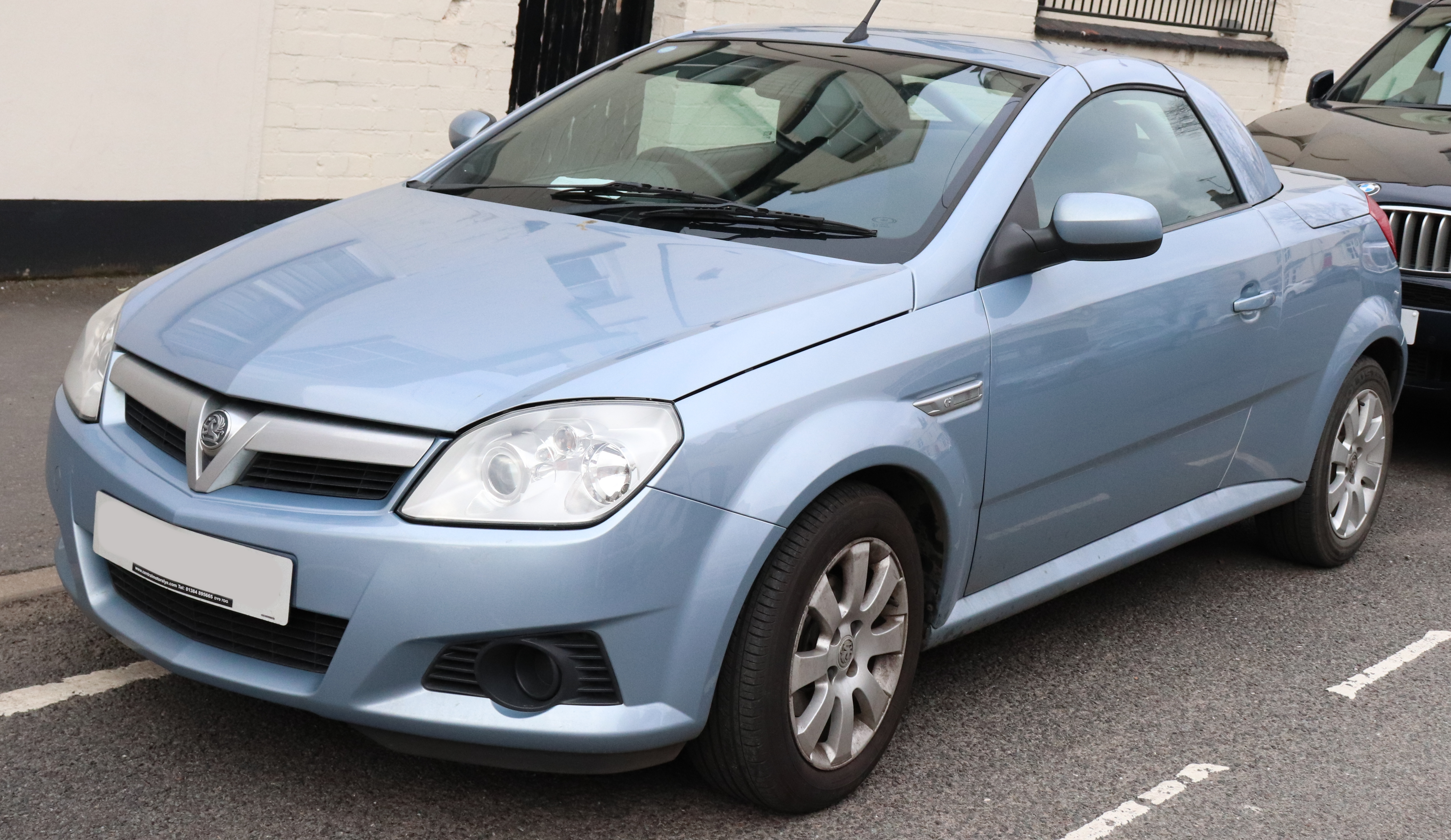 2006 Vauxhall Tigra Twinport 1.4 Front Taken in Leamington Spa